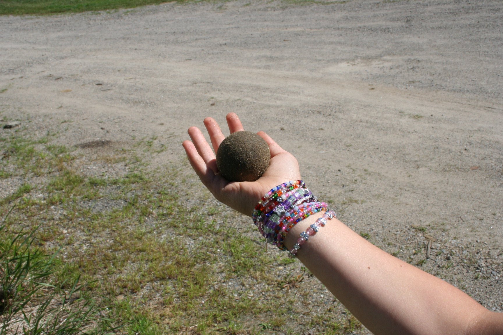 Dorodango by Kelly Taylor, June 29, 2007.